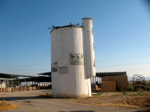 silo-nirhaemek